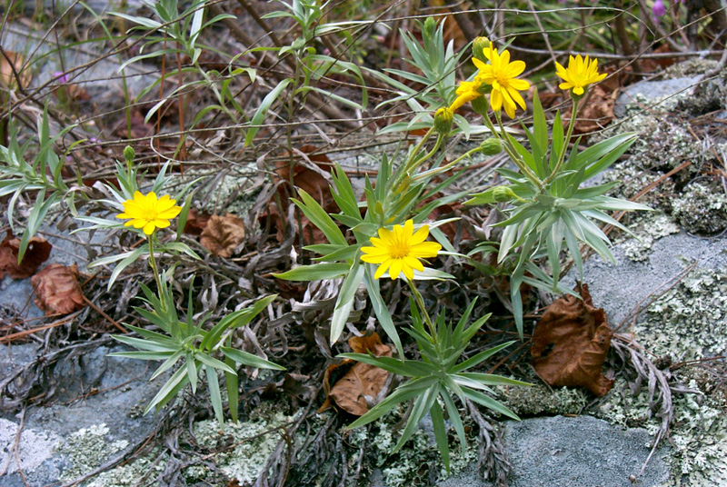 Pityopsis ruthii USFS photo